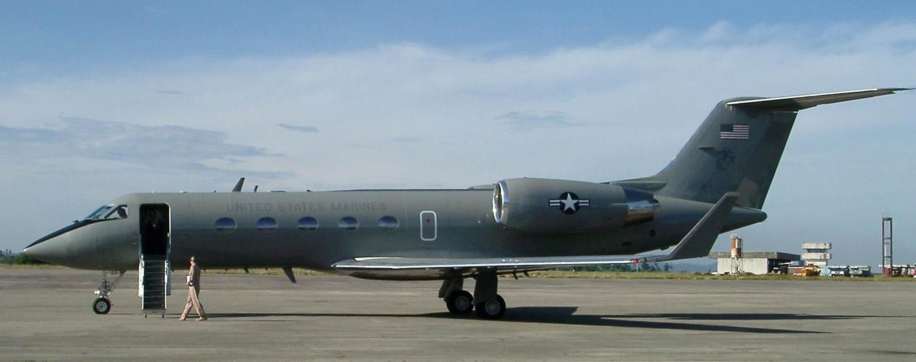 U.S. Marine Corps C-20, aka "The Grey Ghost," picture taken while on tarmac in Mombasa.